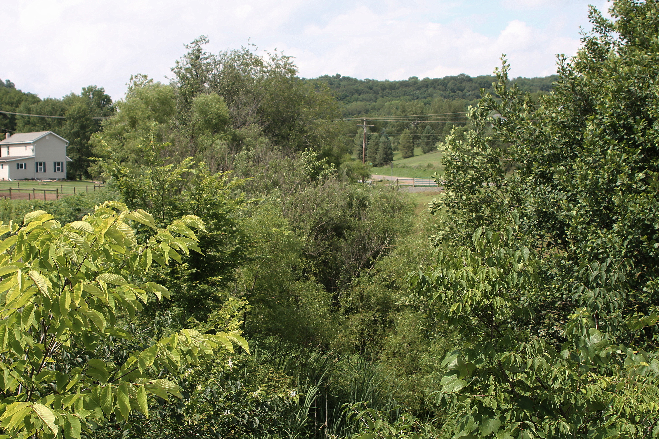 Vegetation near Indian Creek, a tributary of Mauses Creek. The creek is here, but is too overgrown to be visible.